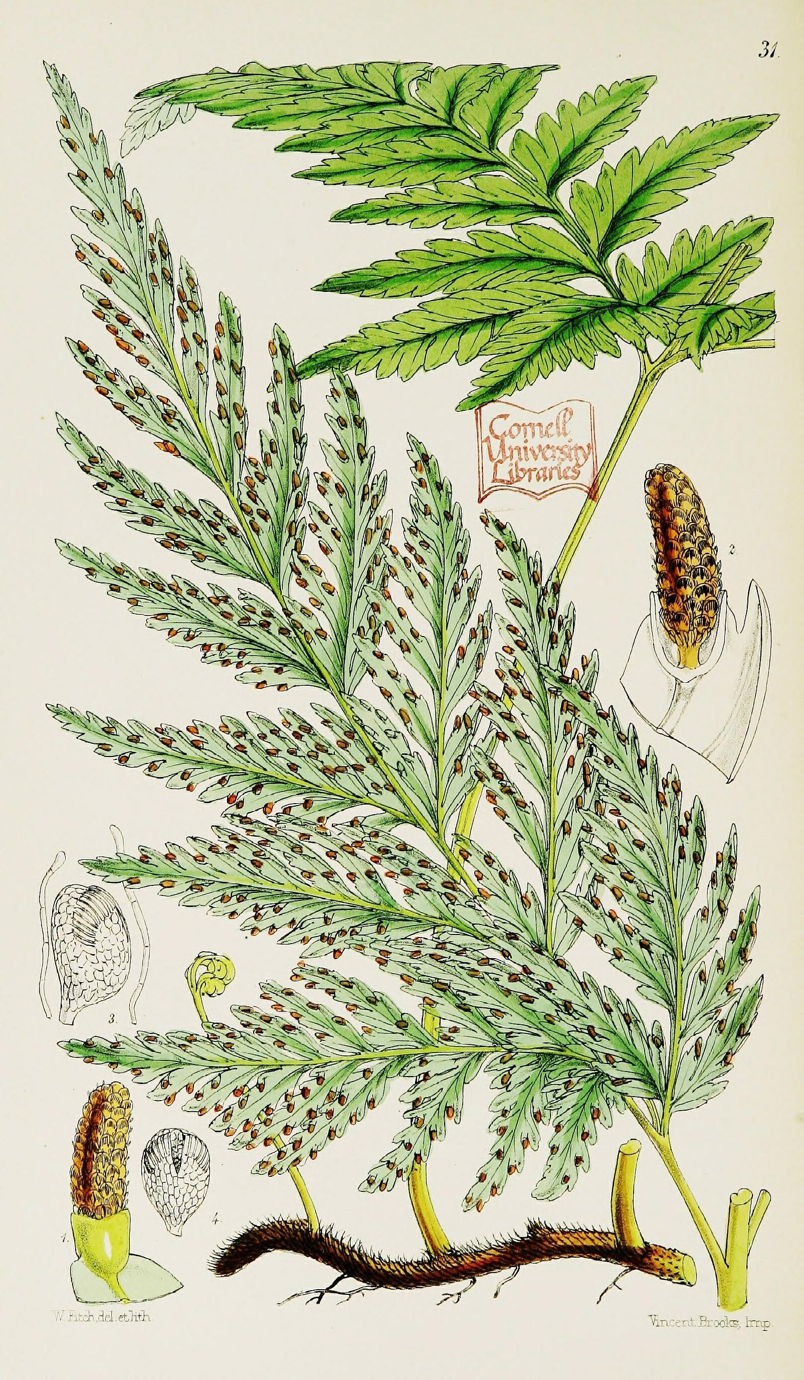 Leaves, grass-67-091 - 031-Mr Cunningham's Loxsoma, loxsoma cunninghami Drawing of Loxoma cunninghamii